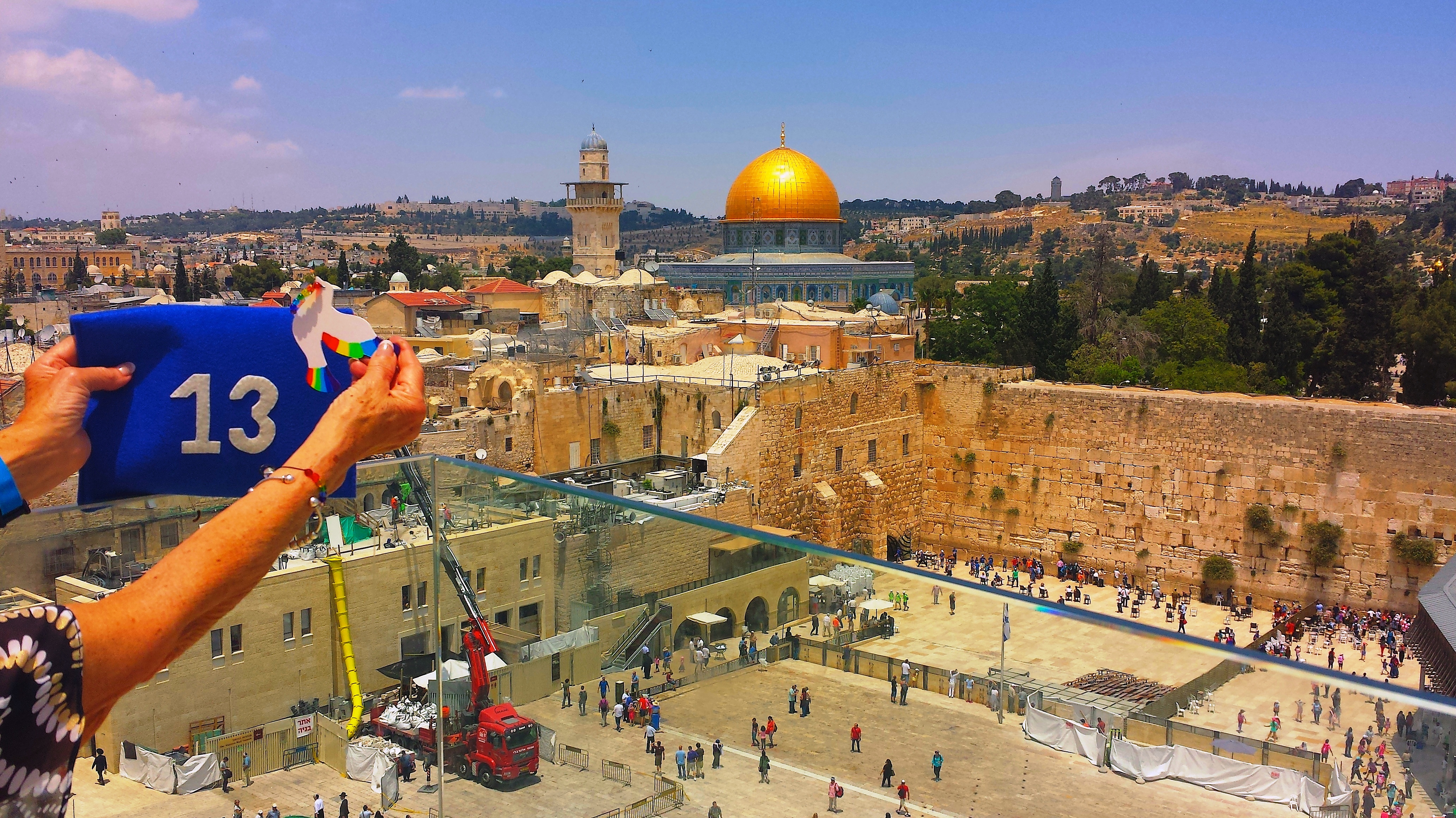 Norma Glass with Dove 13 in Jerusalem, 2015